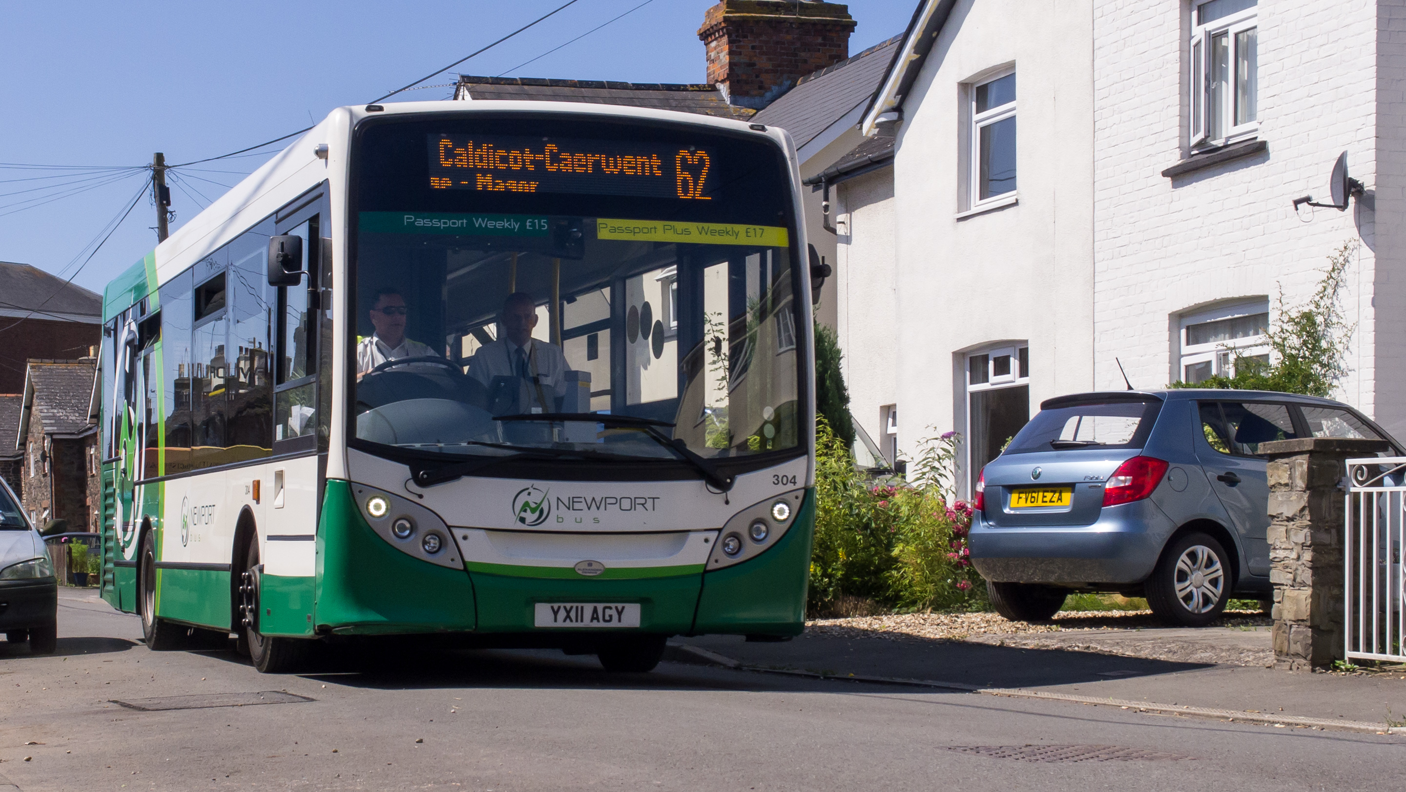 Newport Transport 304 YX11 AGY on route 62 in Sudbrook